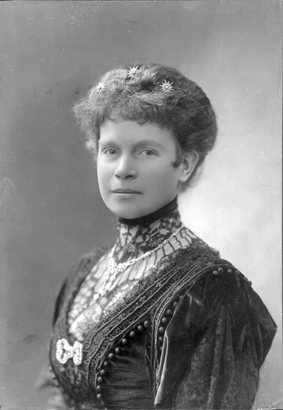 Princess Elisabeth Marie of Bavaria (1874-1957)